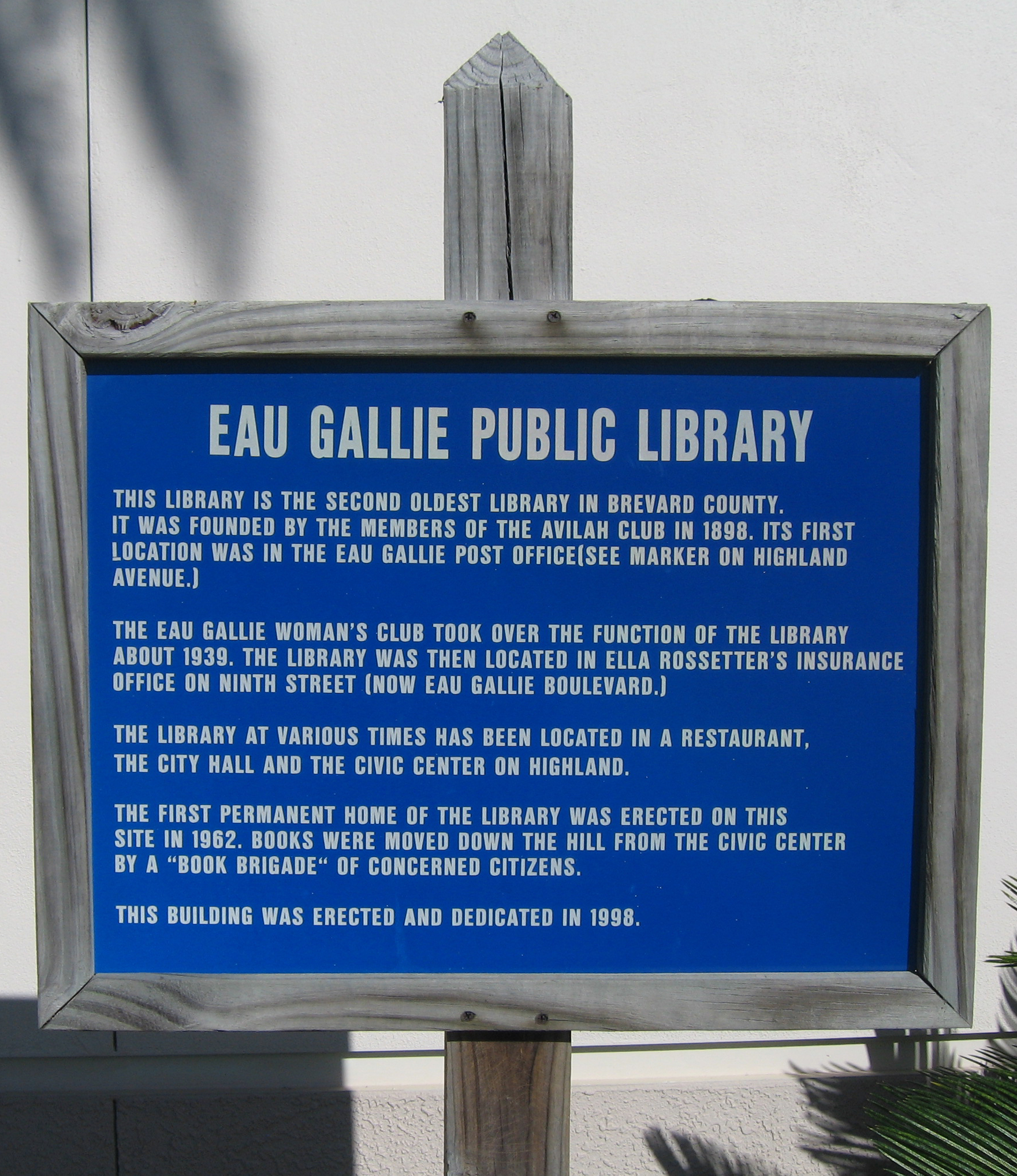 Historical marker designating the site of the Eau Gallie Public Library, 1521 Pineapple Avenue, Eau Gallie, Florida.